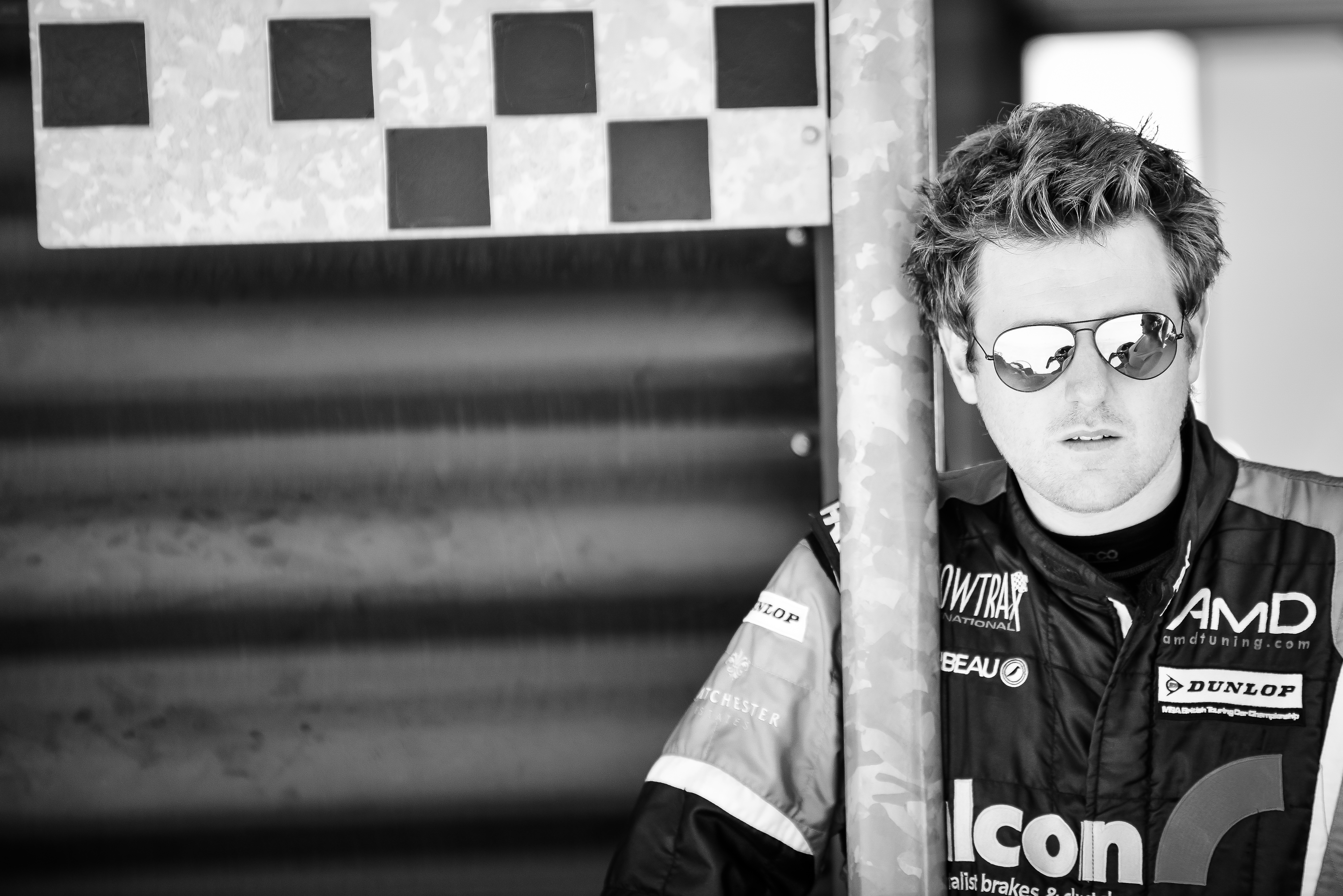 Ollie Jackson, BTCC Rockingham 2017. AmD Essex and Cobra Exhausts Audi.